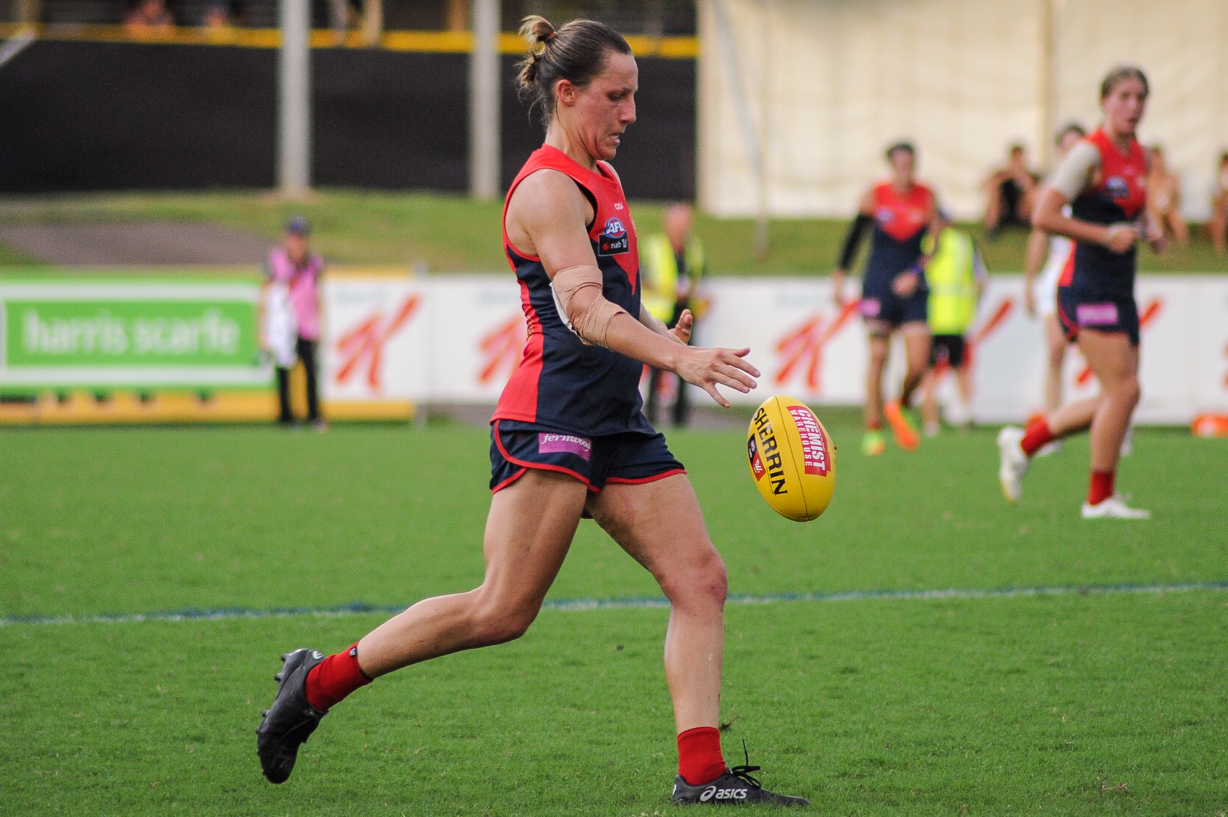 Karen Paxman kicking during the AFL Women's round six match between Adelaide and Melbourne on 11 March 2017 at TIO Stadium in Darwin, Northern Territory